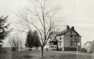 View of the Sims-Mitchell House, 242 Whittle Street, Chatham, Pittsylvania County, Virginia. The house became the headquarters of the Chatham Episcopal Institute, later Chatham Hall, after a fire in 1906 burned down all the facilities of the Institute. The home was the longtime residence of the Sims family, a prominent Pittsylvania County family. Photograph courtesy of the archives of Chatham Hall, Chatham, Virginia.